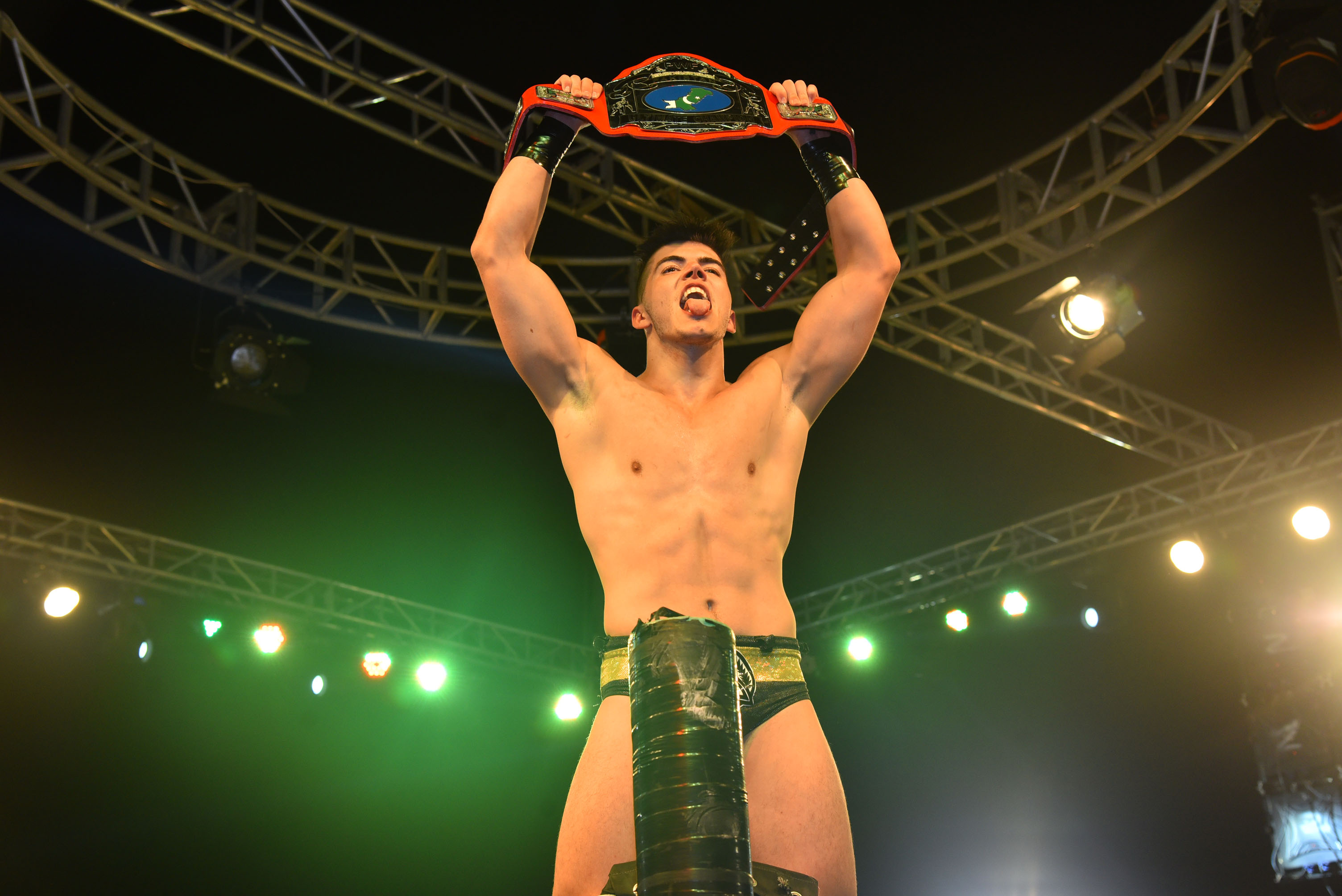 Sammy Guevara PWFP Ultimate Championship Rumble in Pakistan 2019 Wrestling in Pakistan International Wrestling Dreamworld Resort Pakistan